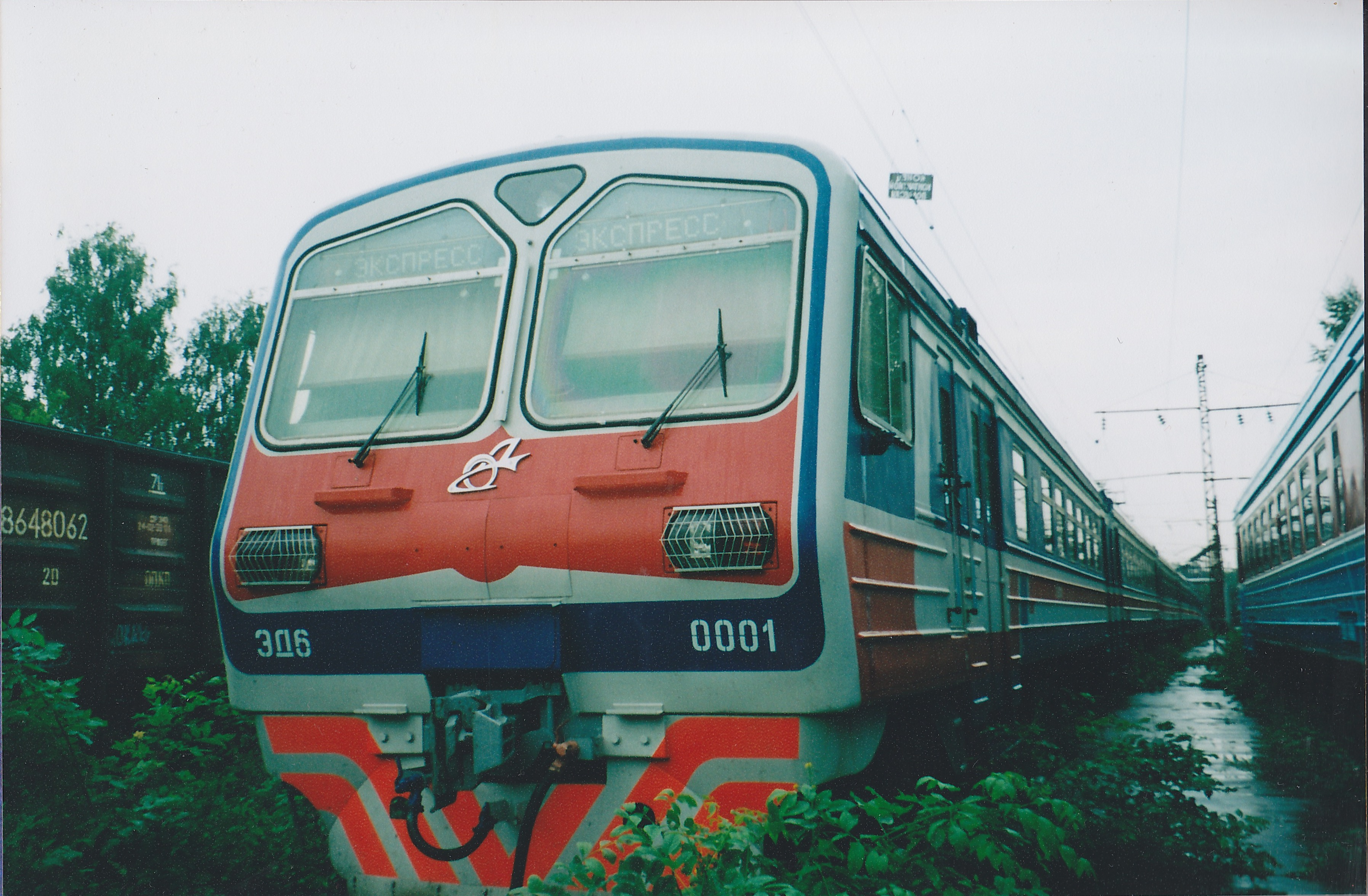 Electrichka ED6-0001 at test ring in Scherbinka.